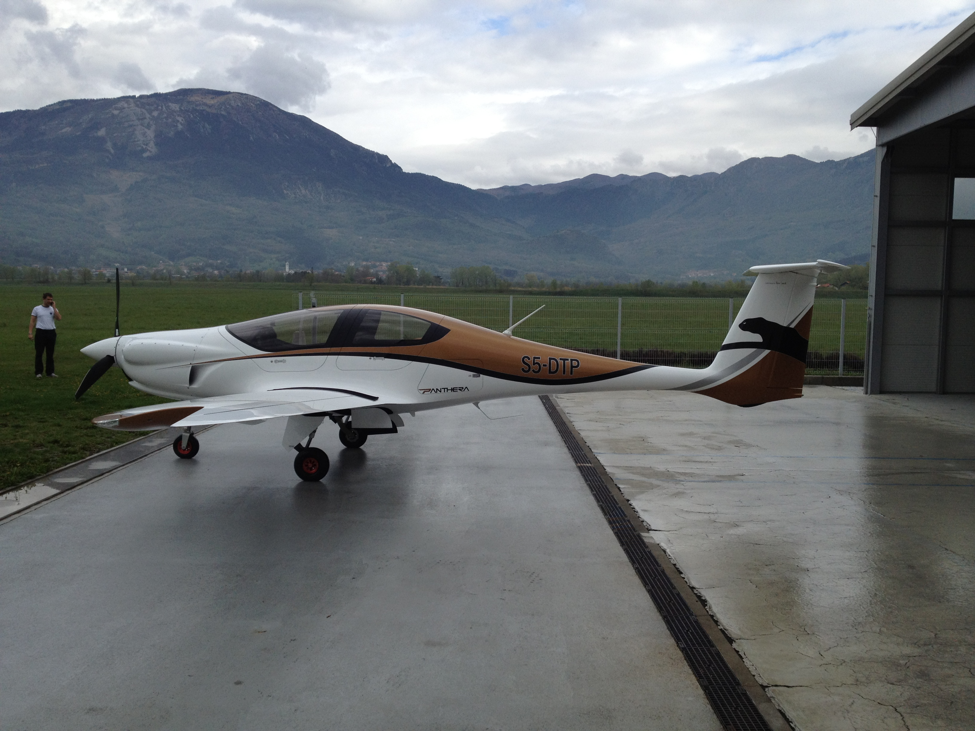 Pipistrel Panthera pictured before the official reveal in Ajdovščina. april 2012